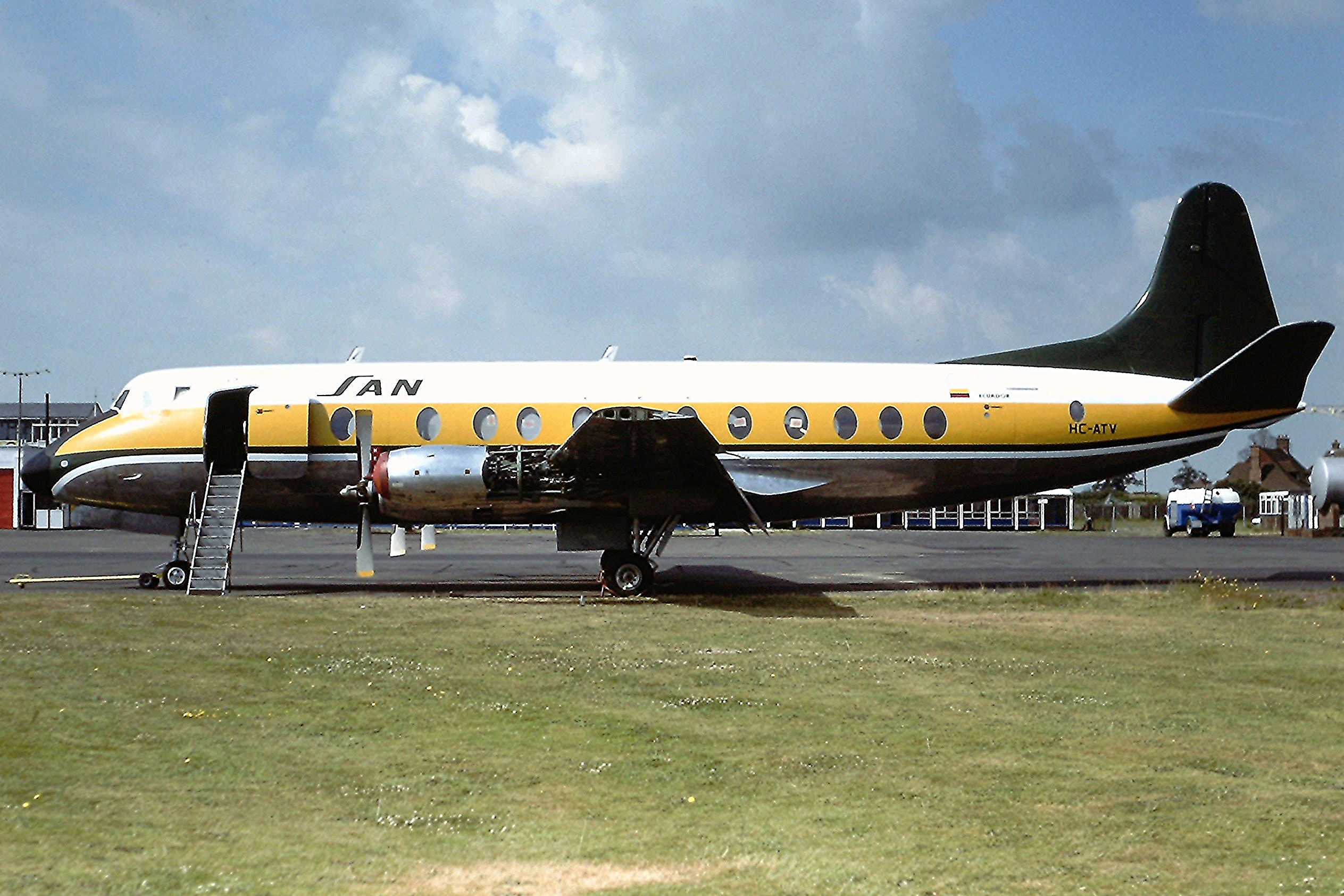 HC-ATV Vickers Viscount San Ecuador Coventry July 1979